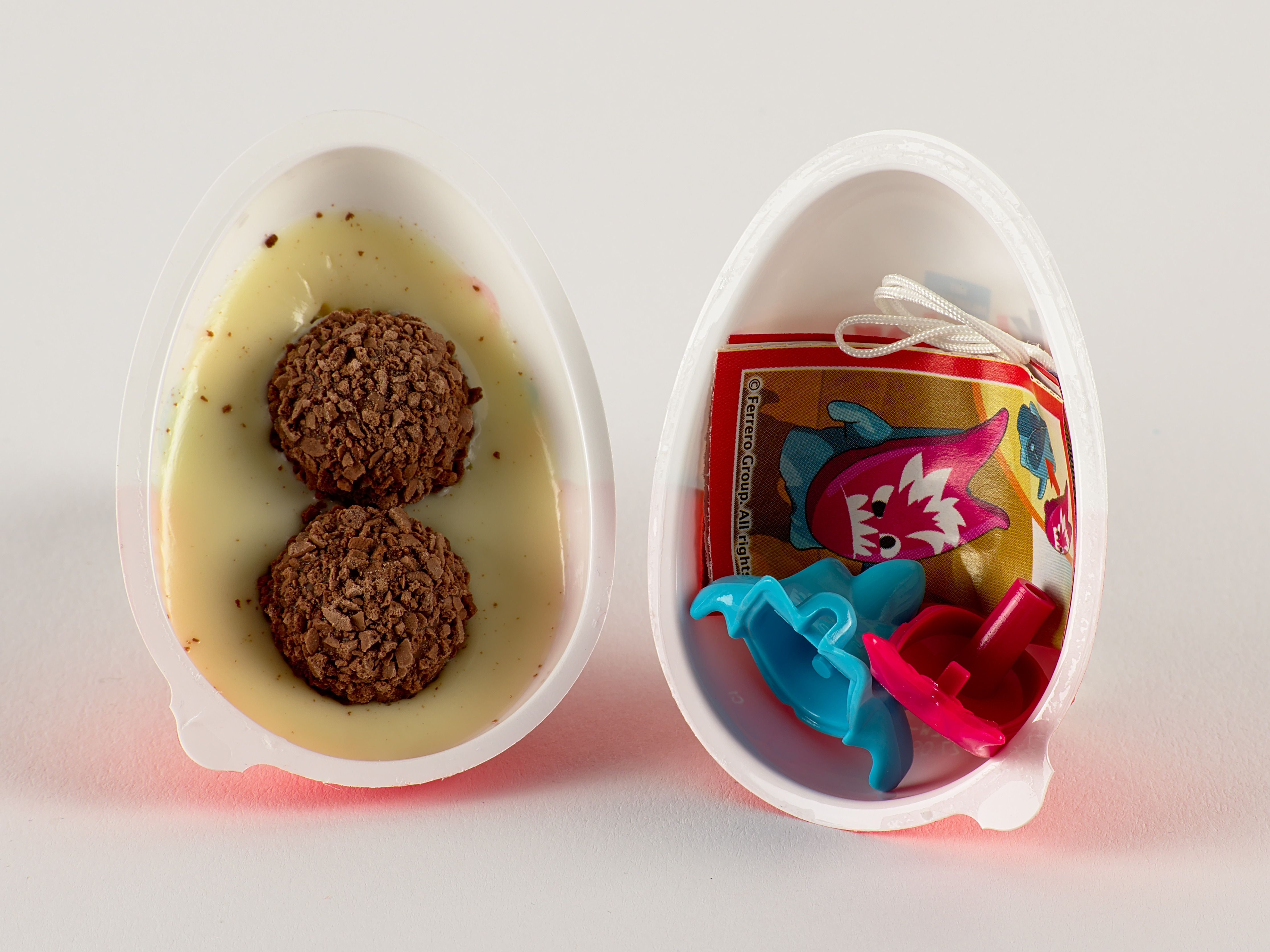 A Ferrero “Kinder Joy” Egg, both halves pulled apart and opened, showing the edible part and the unassembled toy.